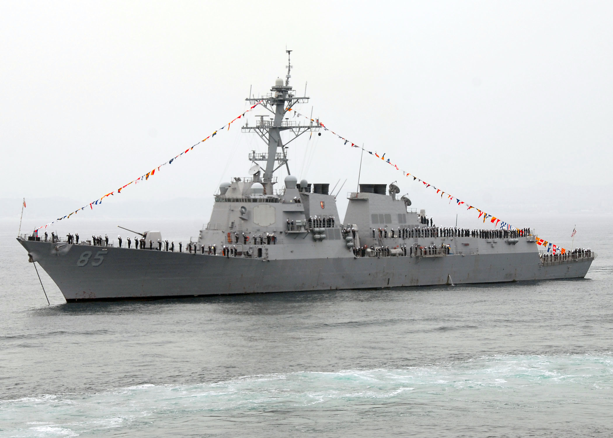 PUSAN, Republic of Korea (Oct. 7, 2008) The guided-missile destroyer USS McCampbell (DDG 85) is anchored at full dress ship during the International Fleet Review "Pass and Review." Twenty-one ships from 11 navies joined ships from the Republic of Korea Navy for the event. The International Fleet Review, which runs from Oct. 5-10, celebrates the 60th anniversay of the Korean government and its armed forces. (U.S. Navy photo by Mass Communication 1st Class Bobbie G. Attaway/Released)